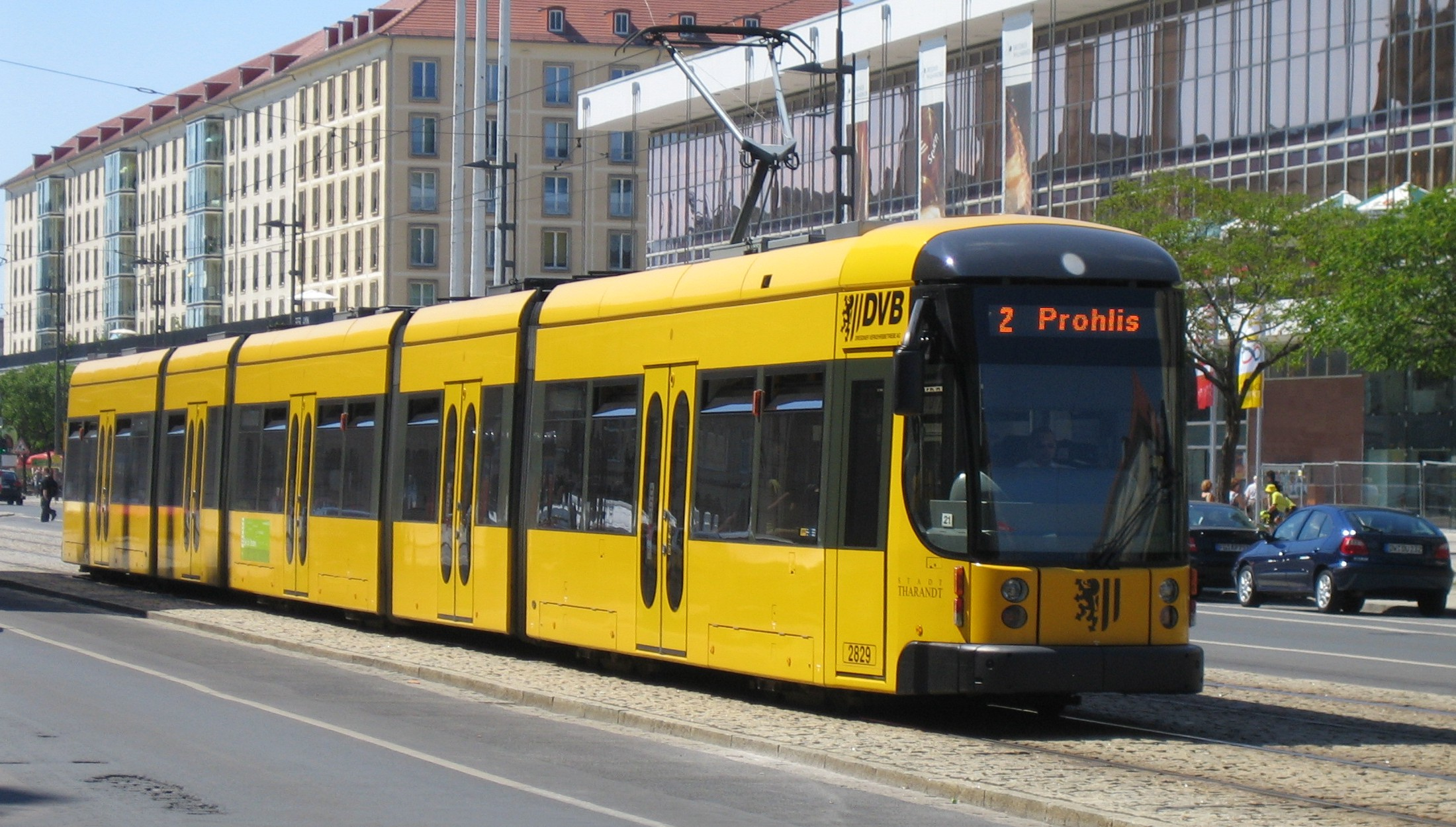 Low-floor tram NGT D12DD of the Dresden Public Transport (car 2829 "Stadt Tharandt") Line 2 to Dresden-Prohlis, near the stop Altmarkt